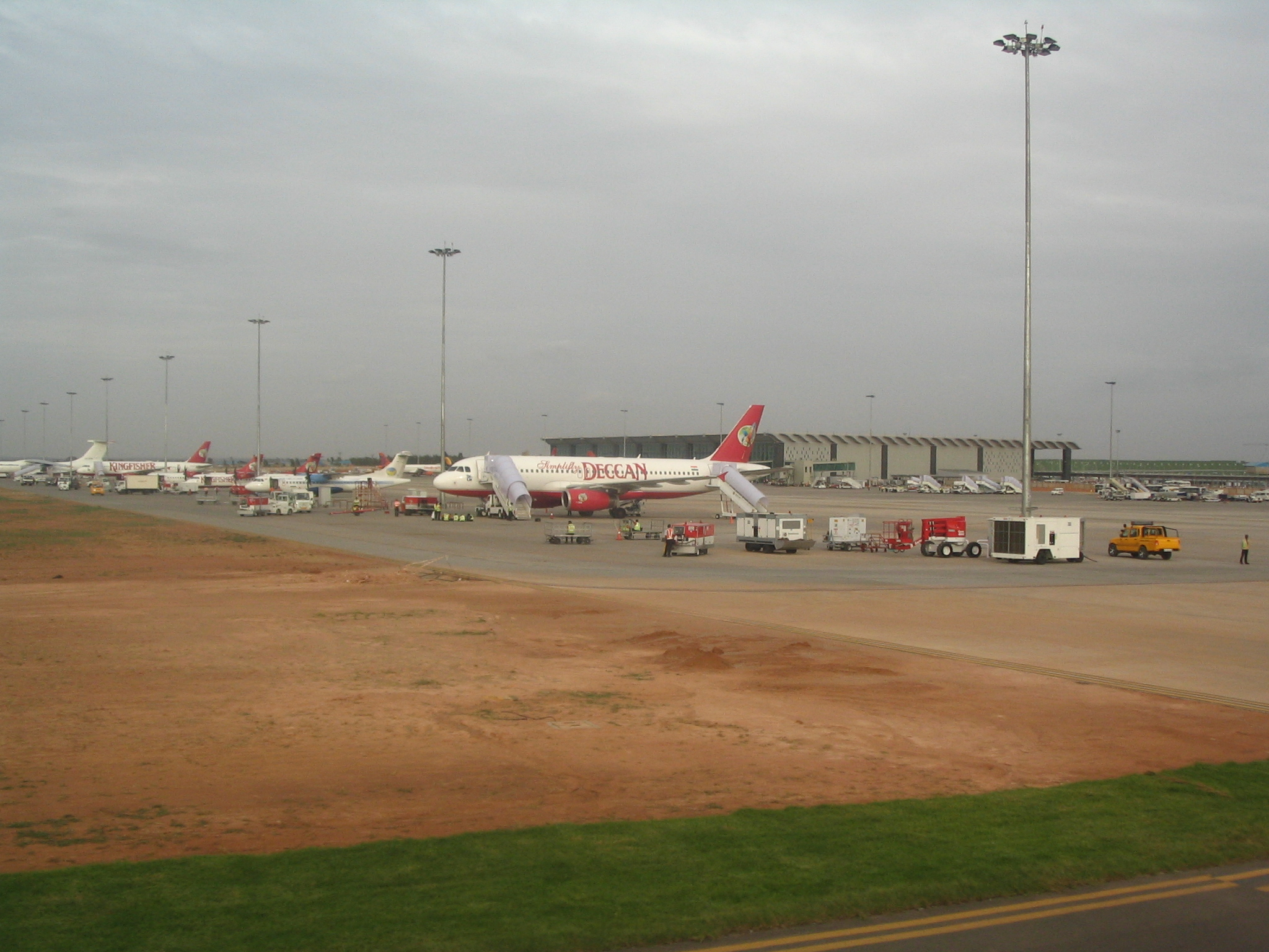 Parked planes and terminal building at Bengaluru International Airport.